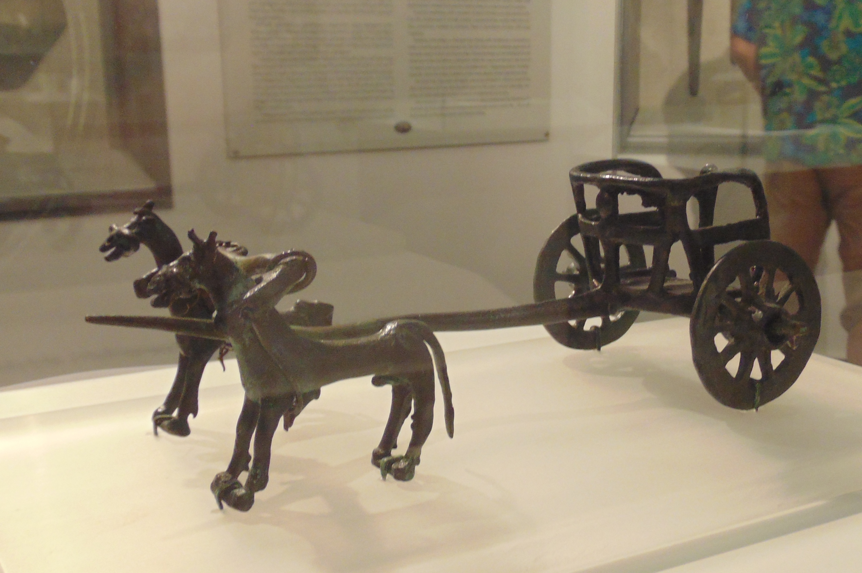 Model of a chariot. Bronze. Gokhebi (Dedoplistsqaro). Early Iron Age, first half of the 1st millennium BC. Sighnaghi Museum, Georgia.